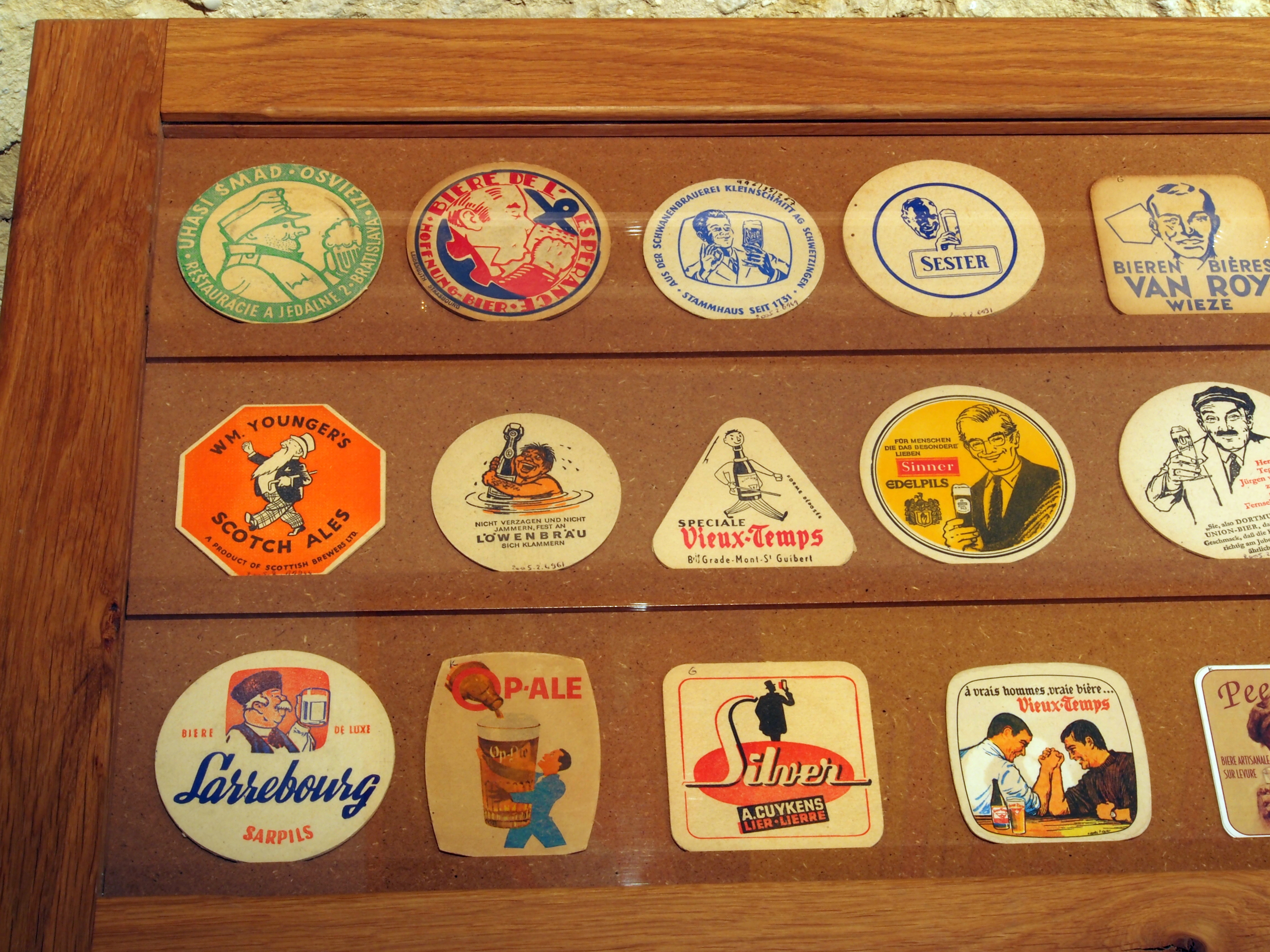 Beer coaster behind glass.